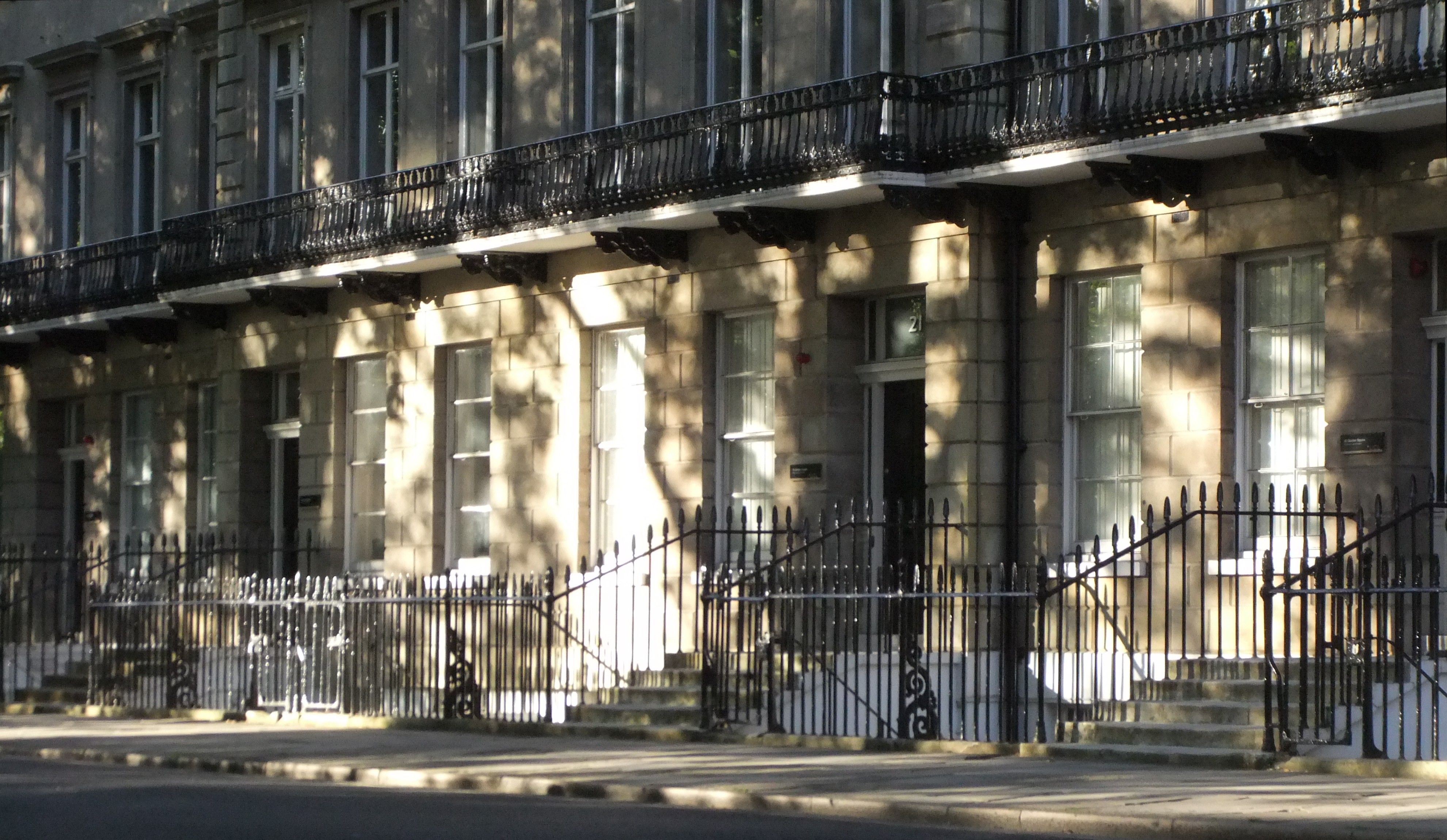 The west side of the square. Now university buildings rather than houses.